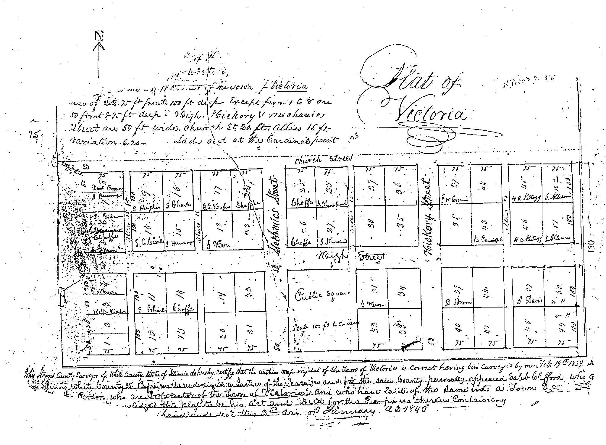 This is an image of the Plat of Victoria, White County, Illinois as recorded in 1843.